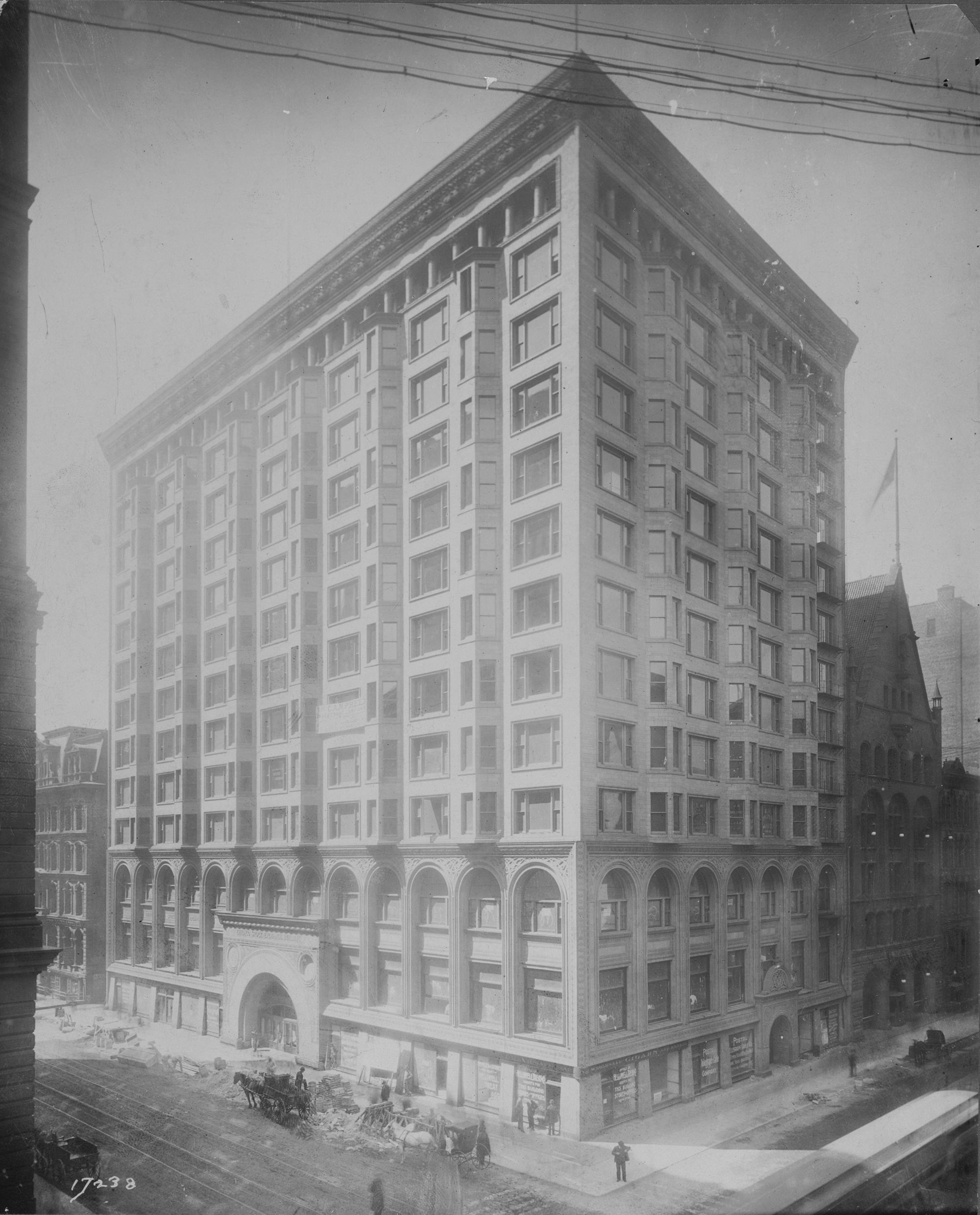 Collection: A. D. White Architectural Photographs, Cornell University Library Accession Number: 15/5/3090.00150 Title: Old Stock Exchange Building Architect: Adler & Sullivan (1881-1895) Building Date: 1893-1894 Location: North and Central America: United States; Illinois, Chicago Photographer: John W. Taylor Photograph date: ca. 1894 Materials: albumen print Provenance: Transfer from the College of Architecture, Art and Planning Persistent URI: There are no known U.S. copyright restrictions on this image. The digital file is owned by the Cornell University Library which is making it freely available with the request that, when possible, the Library be credited as its source.